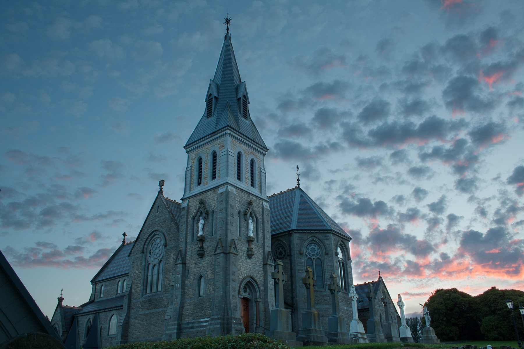 County Cavan, Church of the Immaculate Conception. Wikidata has entry Q55054795 with data related to this item.